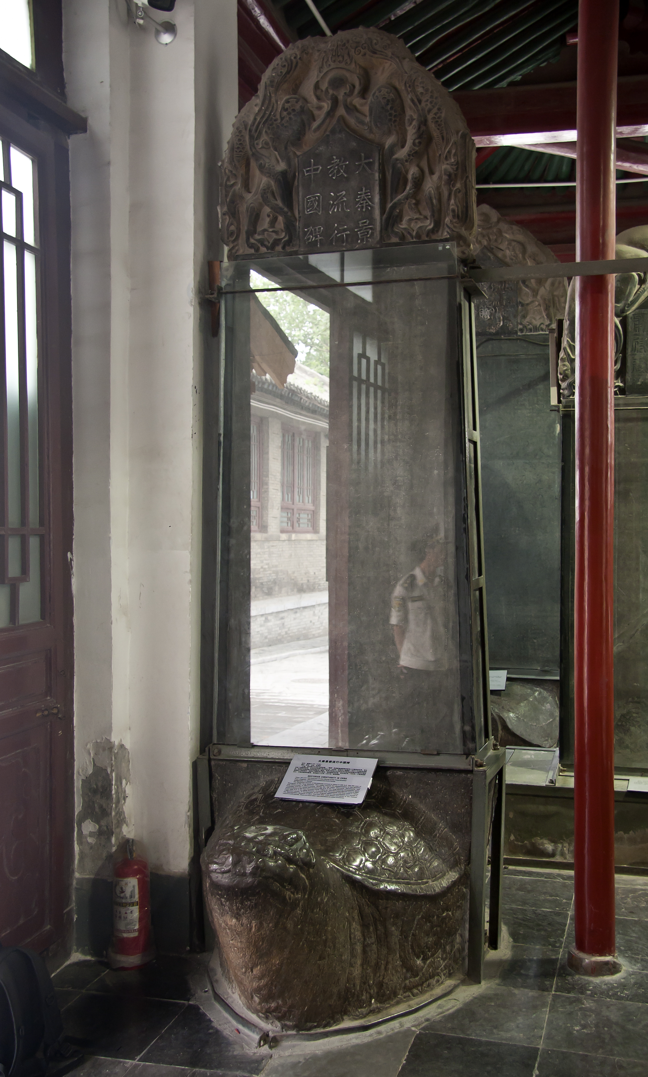 The Nestorian stele in the Beilin Museum in Xi'an, China.